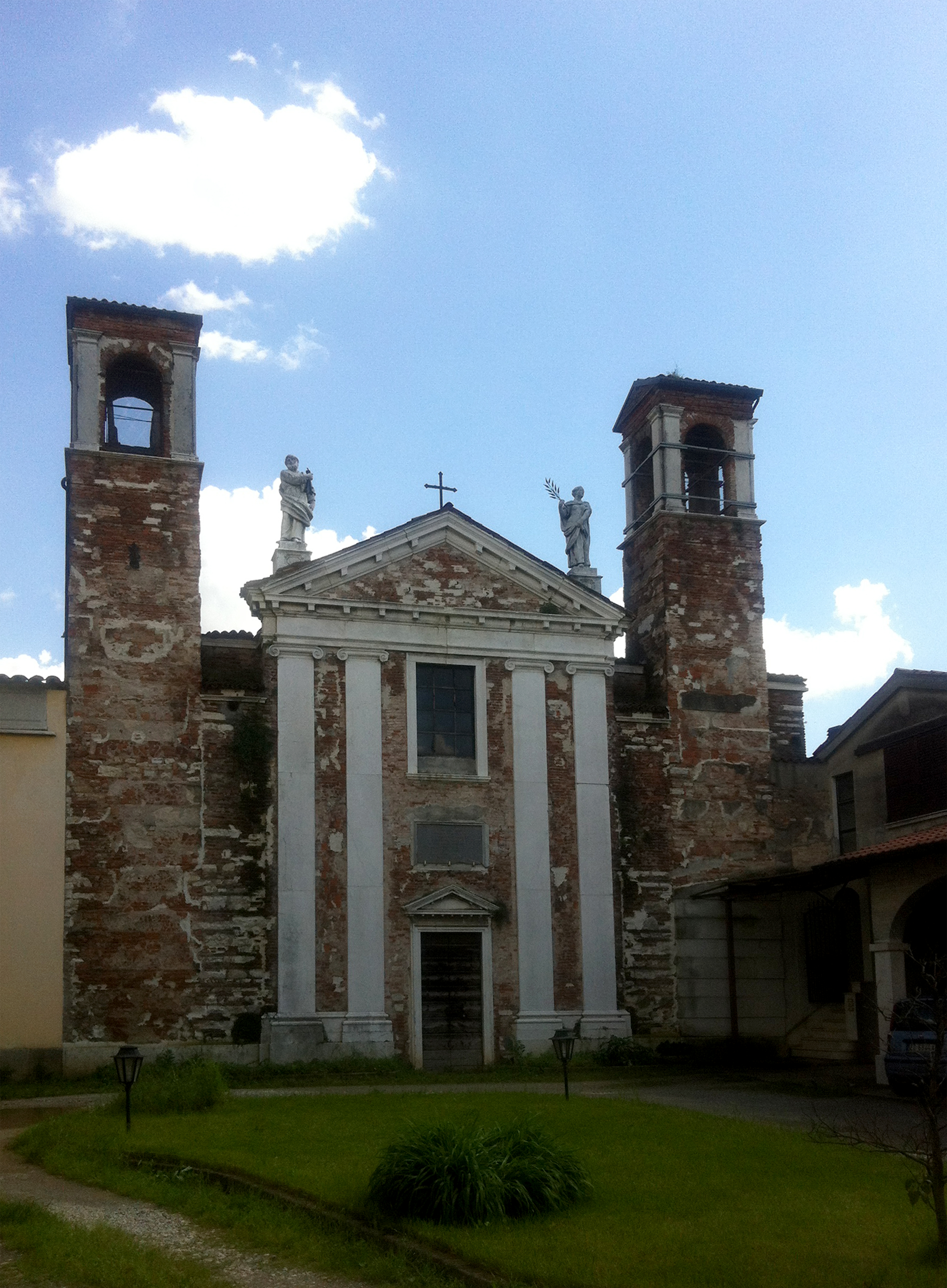 Facade of church in the Archetti's Palace Castenedolo Brescia